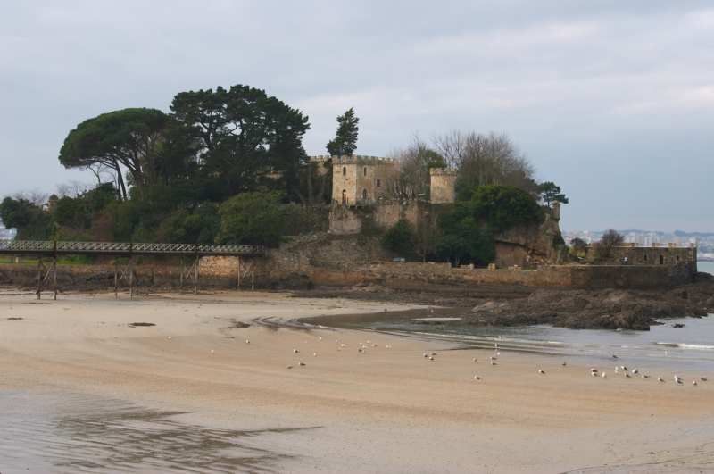 This is the Santa Cruz castle, Oleiros (La Coruña), Spain. Together with the San Antón castle, it served to protect the O Burgo River from entry by the English. Distribución Autor: el-richie Licencia: Categoría:España (imagen)